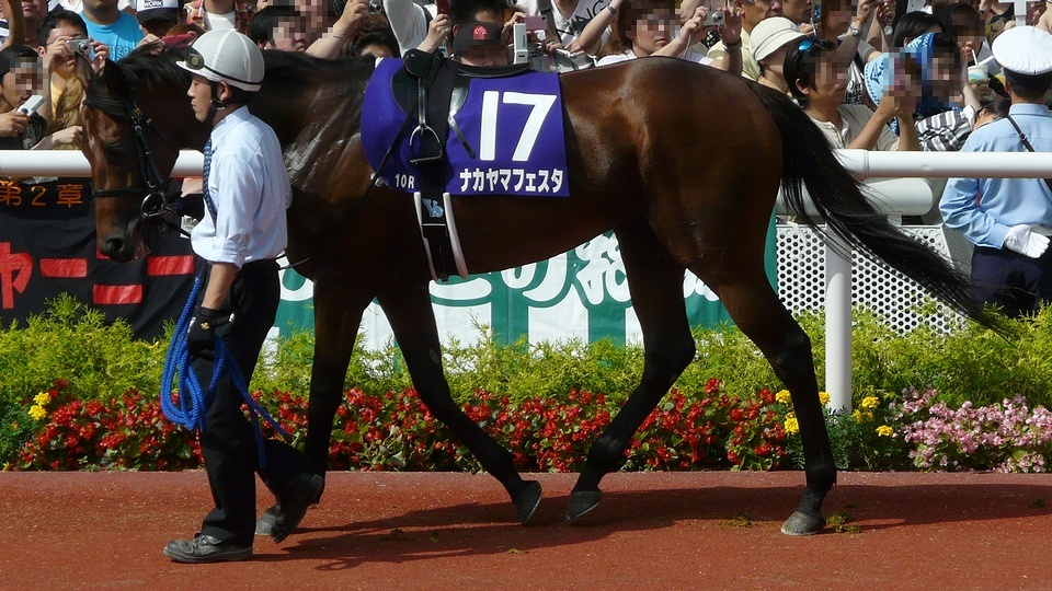 TNakayama-Festa